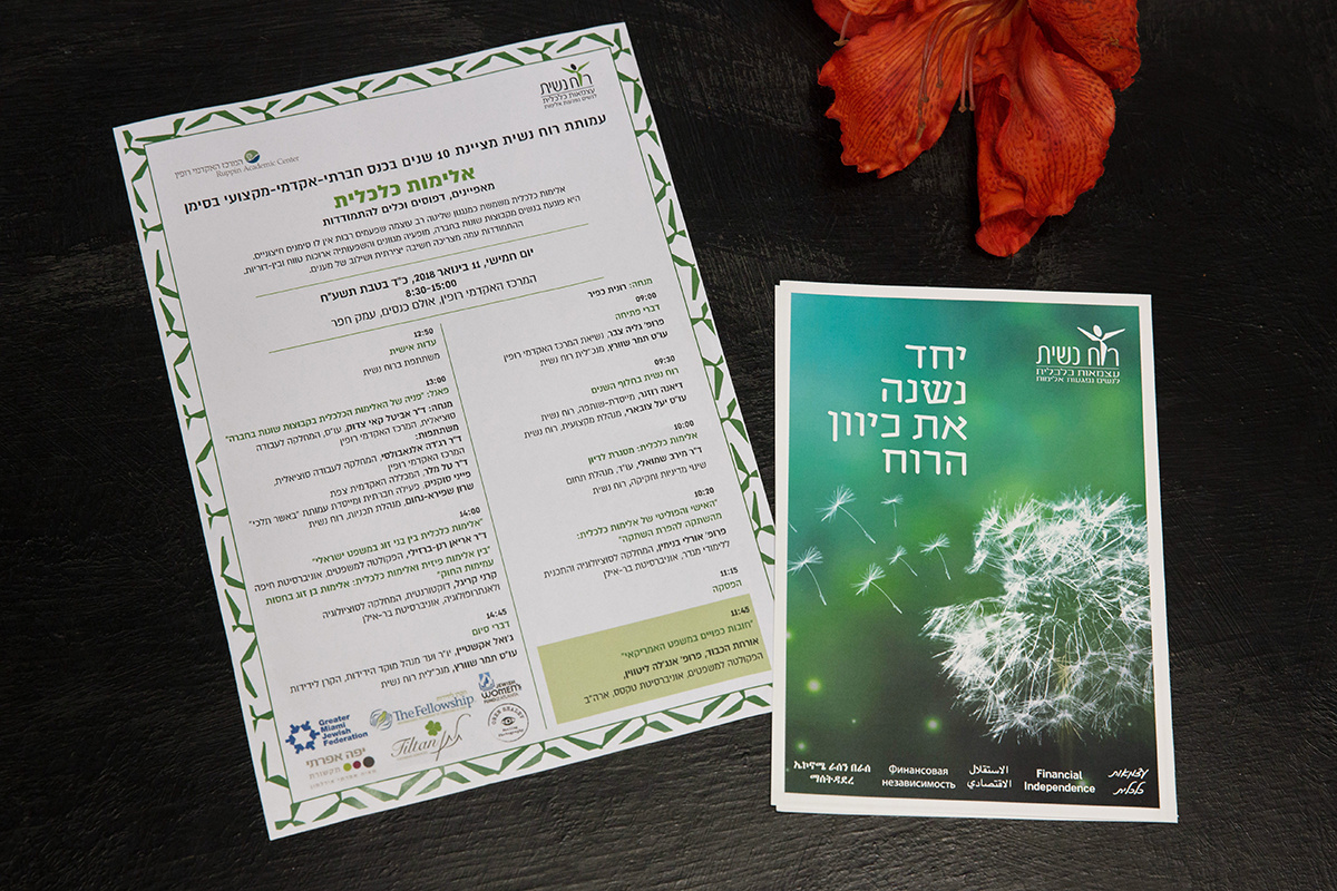 ruach-nashit